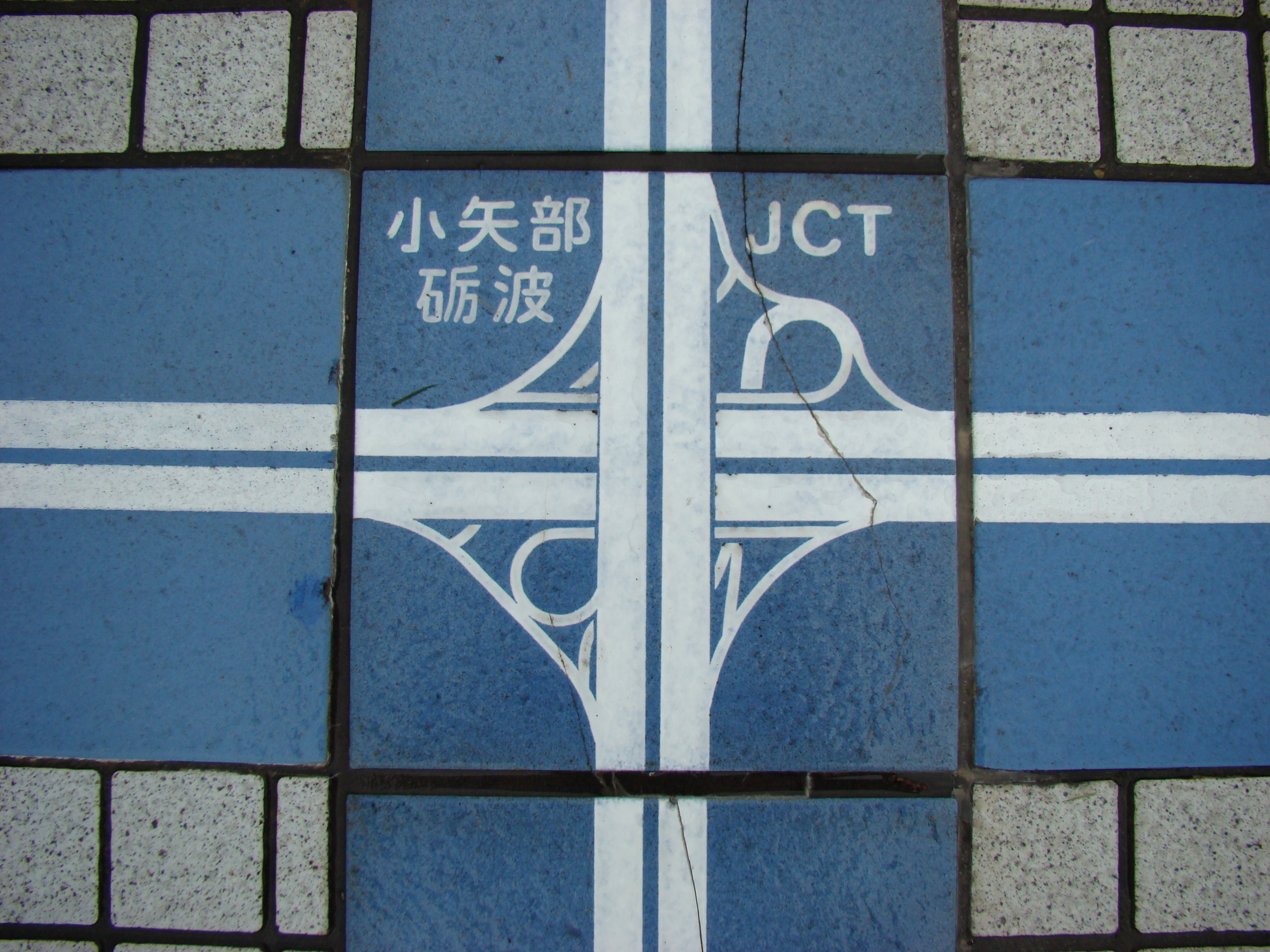 Tile which shows the shape of Oyabe-Tonami Junction on the Hokuriku Expressway, installed at Nadachi-Tanihama Service Area in Chayagahara, Joetsu City, Niigata Prefecture, Japan